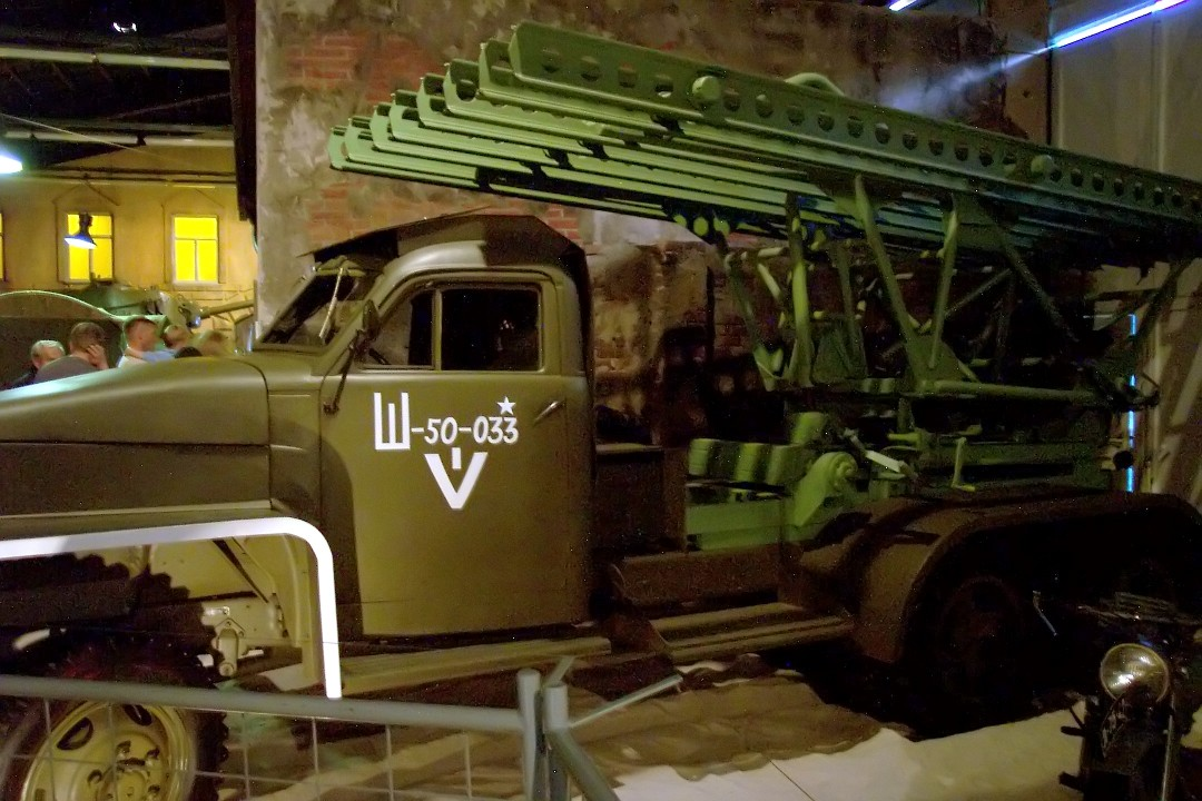 Katyusha Rocket launcher as a part of truck Studebaker